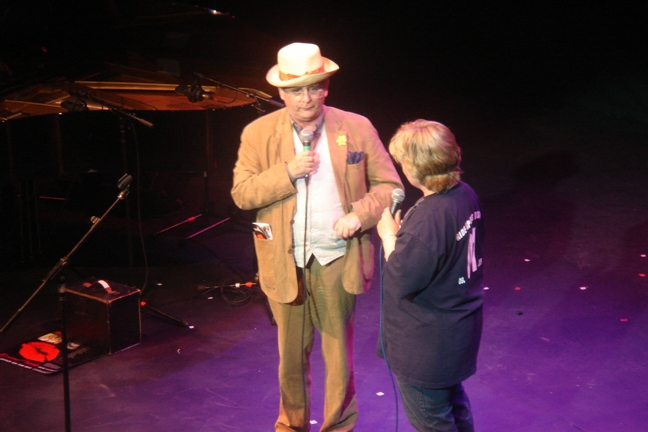 Sandi Toksvig and Sylvester McCoy performing in The Lovely Russell on the 29th June 2008. Taken by me (Adaircairell (talk) 22:09, 30 June 2008 (UTC)), medium quality.